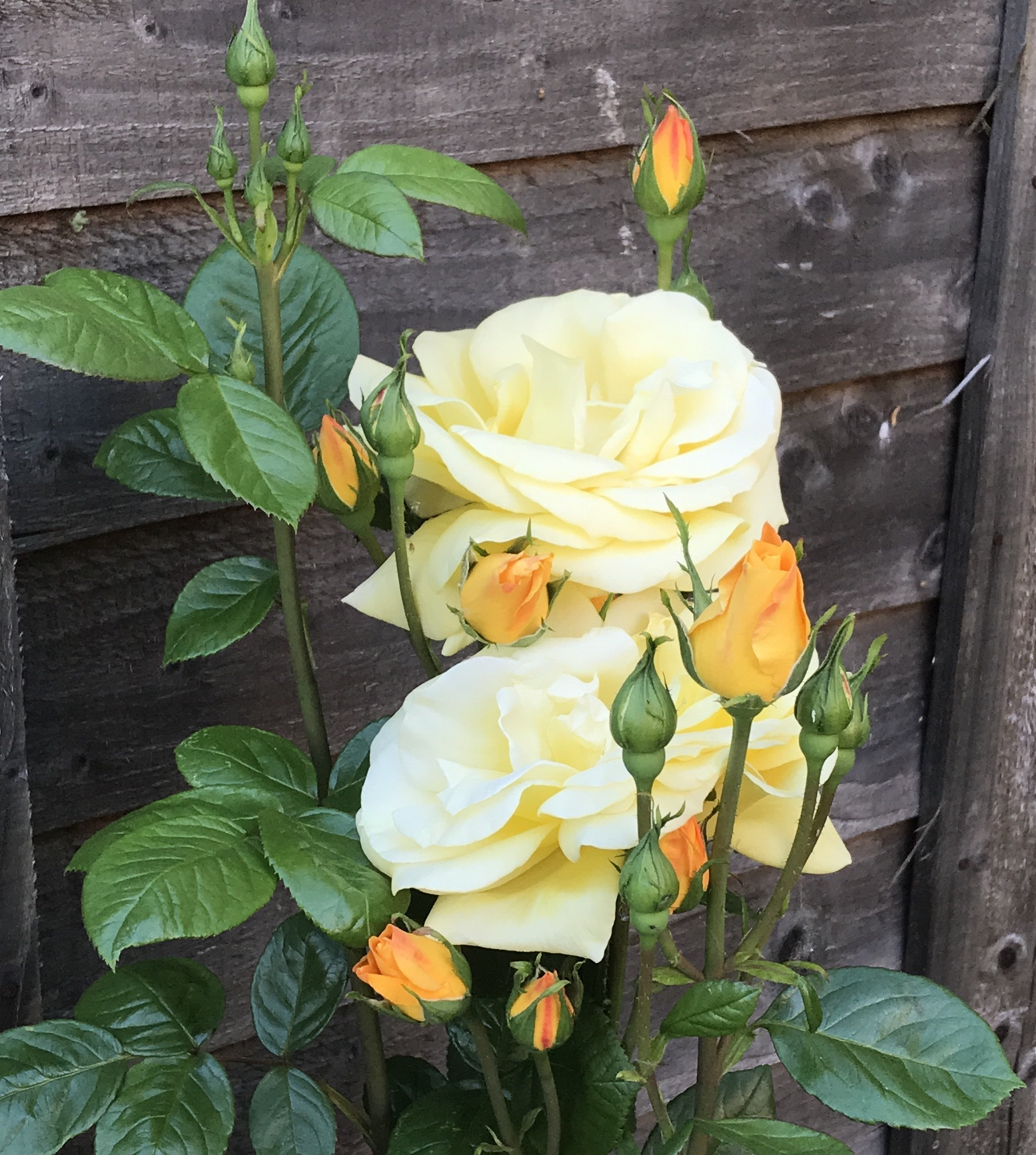 Rose cluster showing multiple flowers at different stages of bloom in typical colour. Variety: Arthur Bell. In my garden. Alas, I was not able to upload the beautiful scent as well.